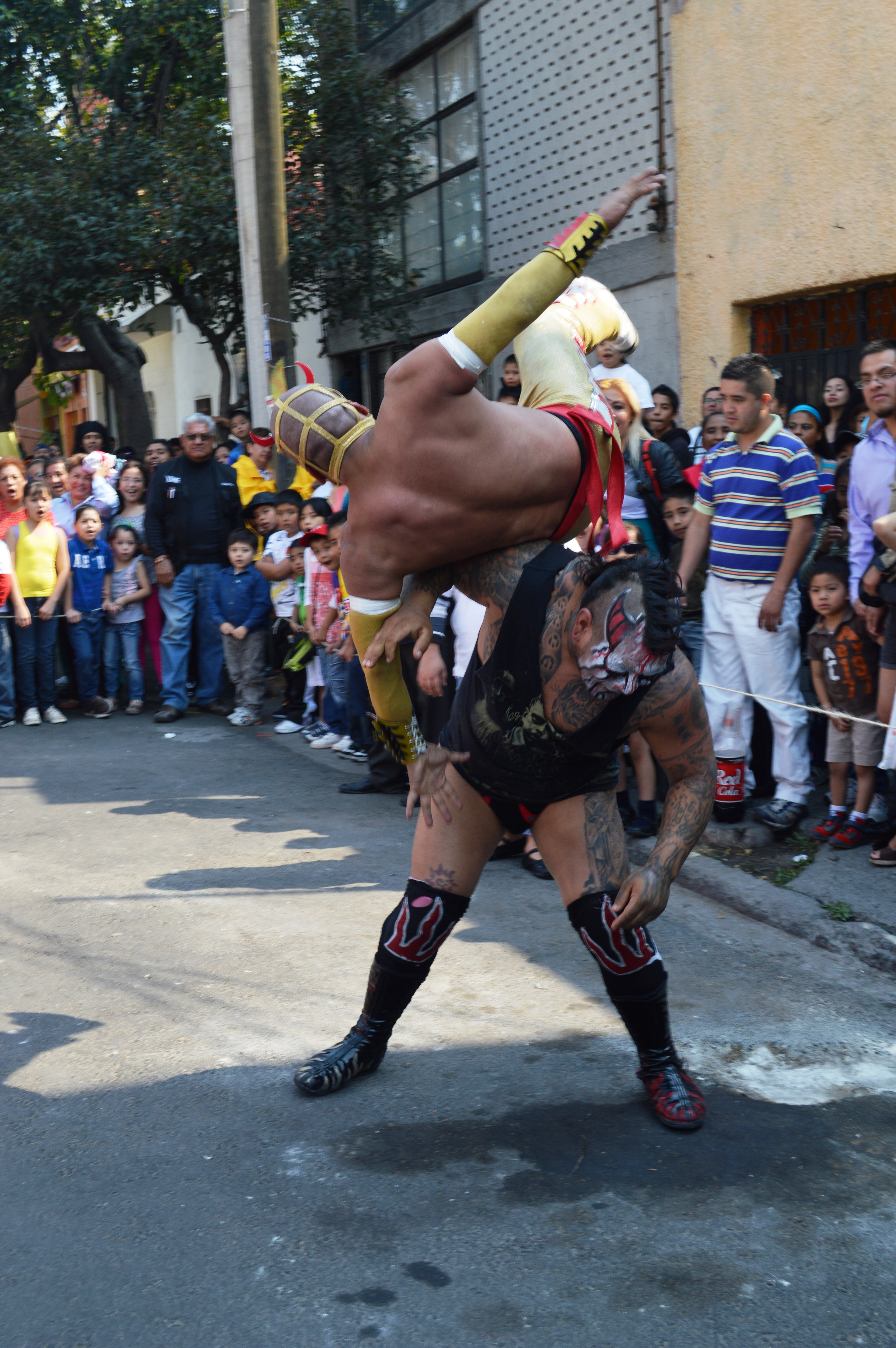 Demus 3:16 and Ultimo Dragoncito at an CMLL lucha libre event part of Festival Día de Reyes Territorial Obrera Doctores in Mexico City